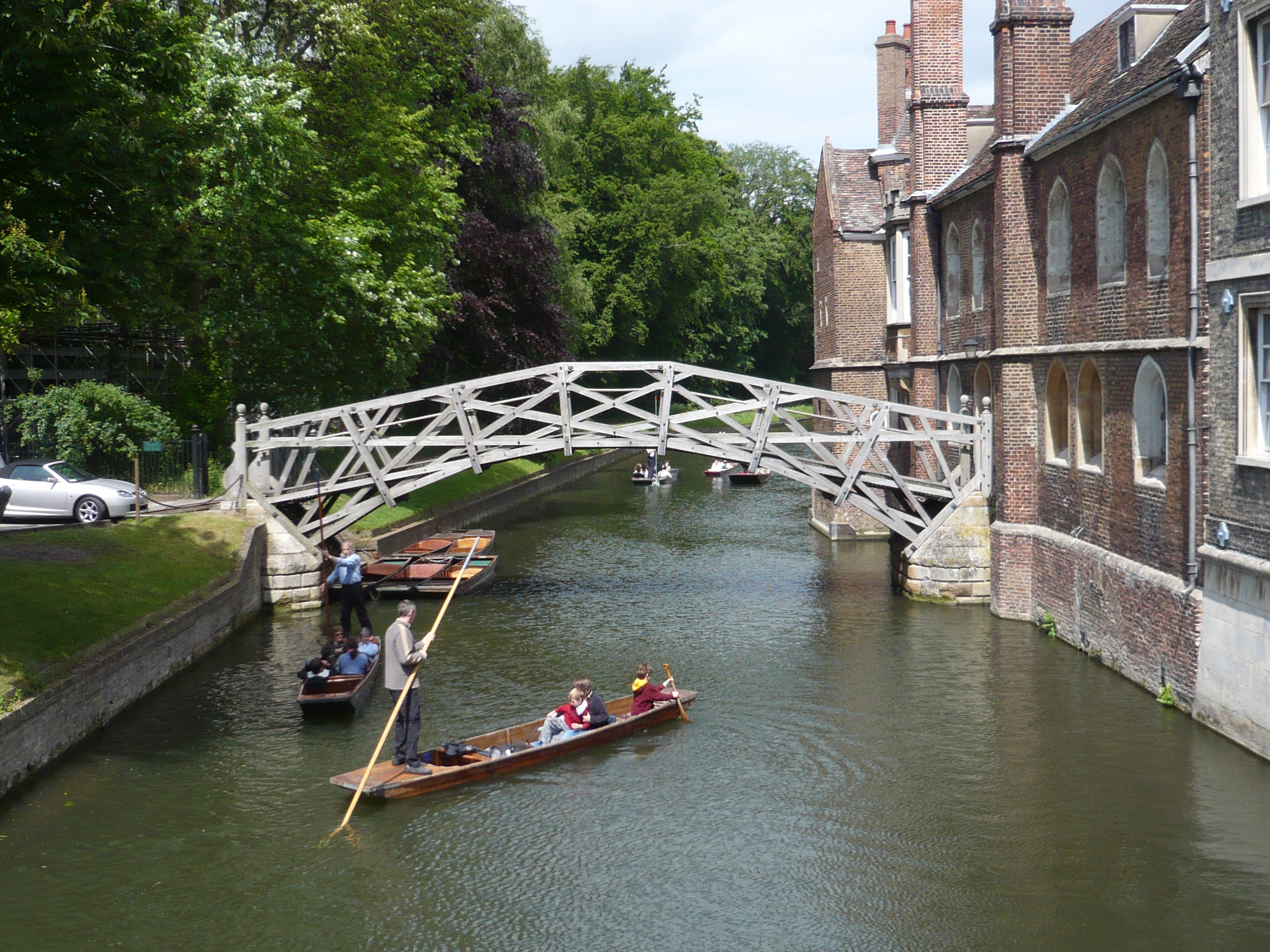 Cambridge University punting (Mathematicians' bridge)